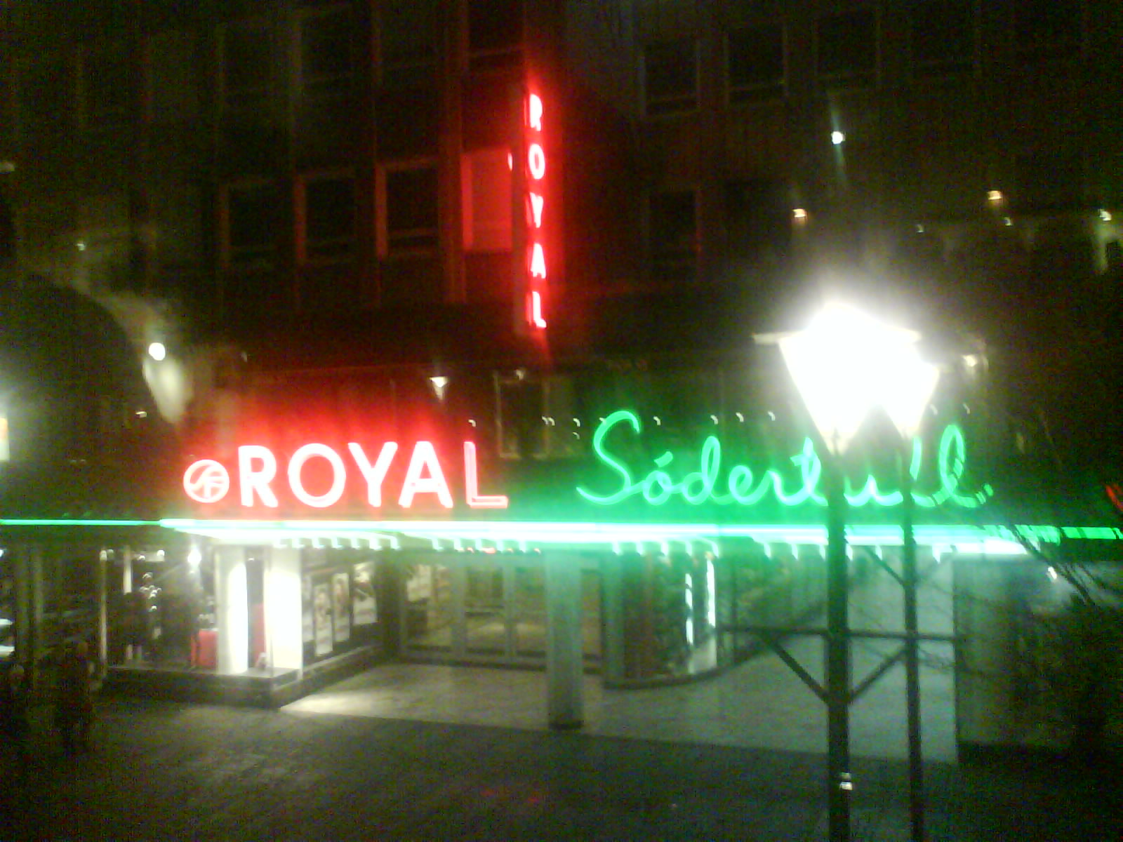 A picture of the cinema "Royal" in Malmö, Sweden.